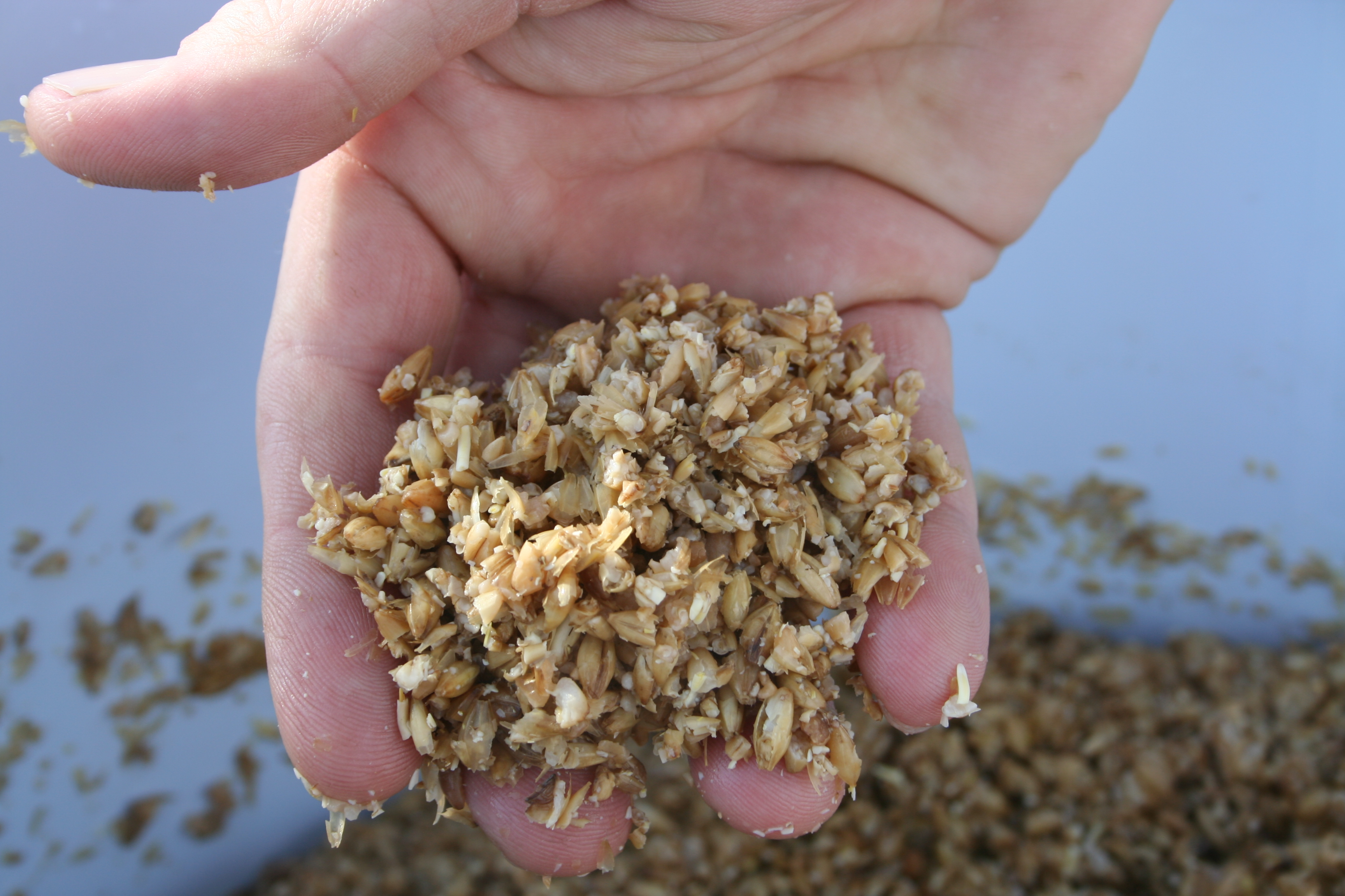 Spent grain